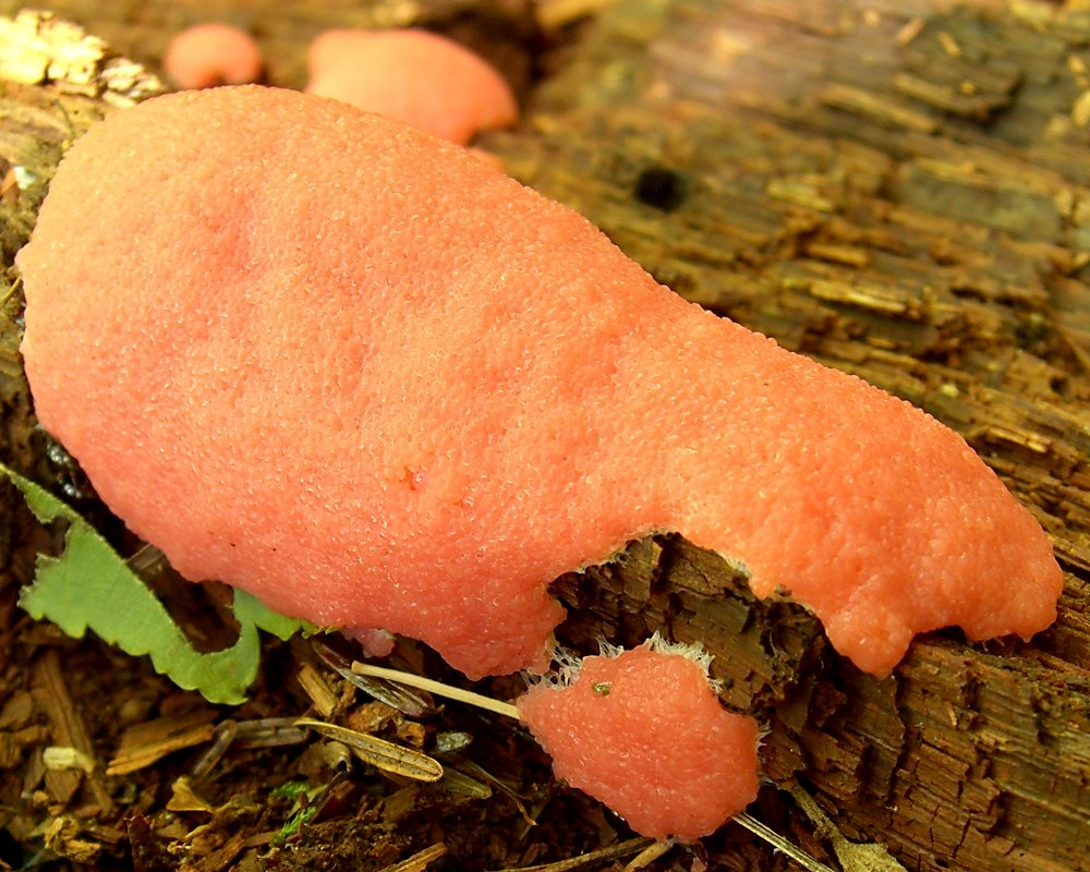 Scientific Name: Tubifera ferruginosa Common Name: unknown Certainty: guess (notes) Location: Southern Appalachians; Smokies; Cataloochee Date: 20060702 I have no idea what this is.